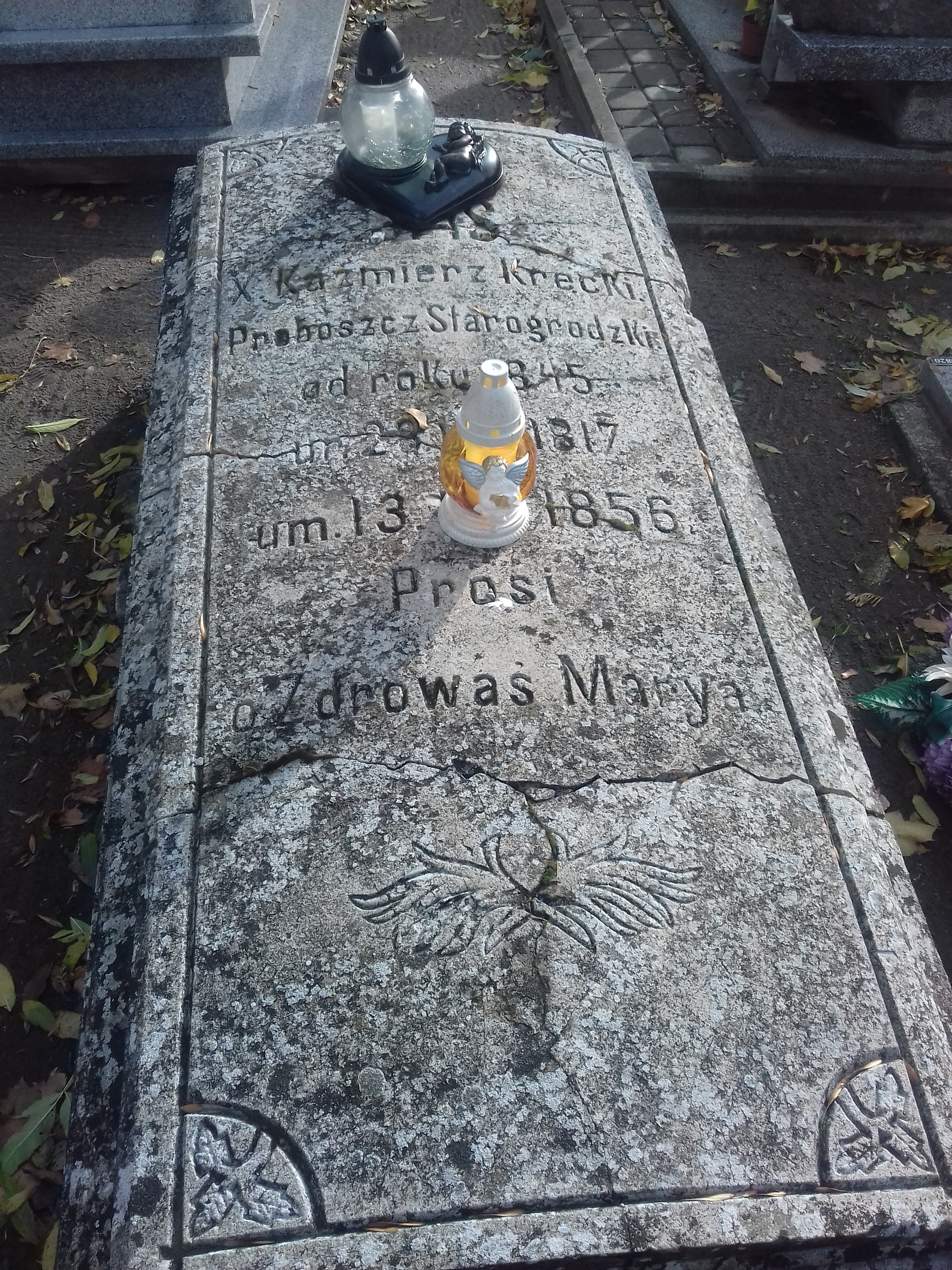 Nagrobek księdza Kazimierza Kręckiego w Starogrodzie